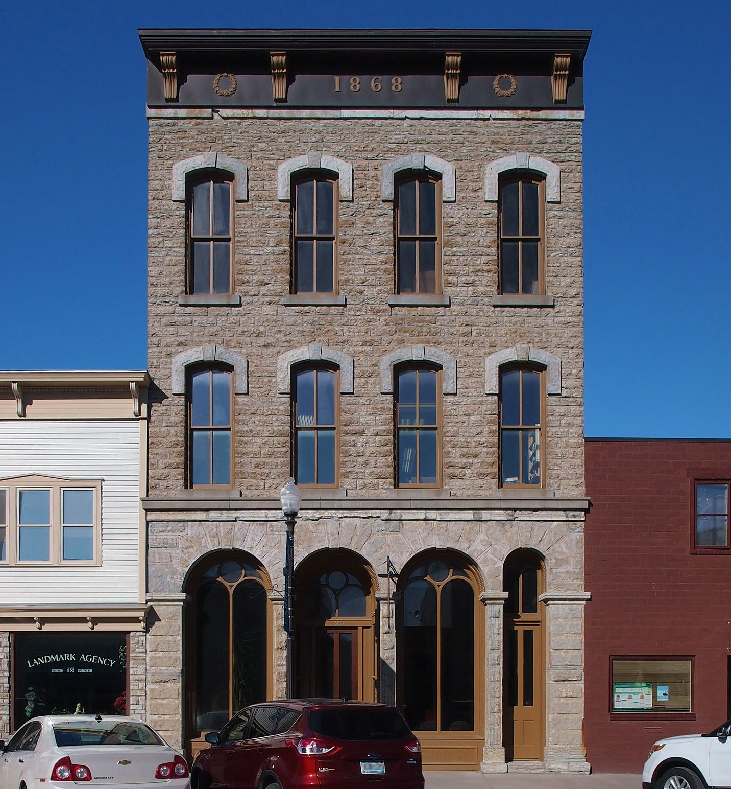 Batchelder's Block, 120 Central Ave N, Faribault, Minnesota, USA. Viewed from the east.